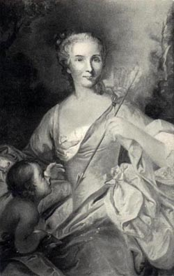 Angelique-Genevieve Renaud d'Avène des Méloizes (1722-1792) Anonyme, vers 1754-1755, huile sur toile, dimensions inconnues, collection du Marquis Des Méloizes